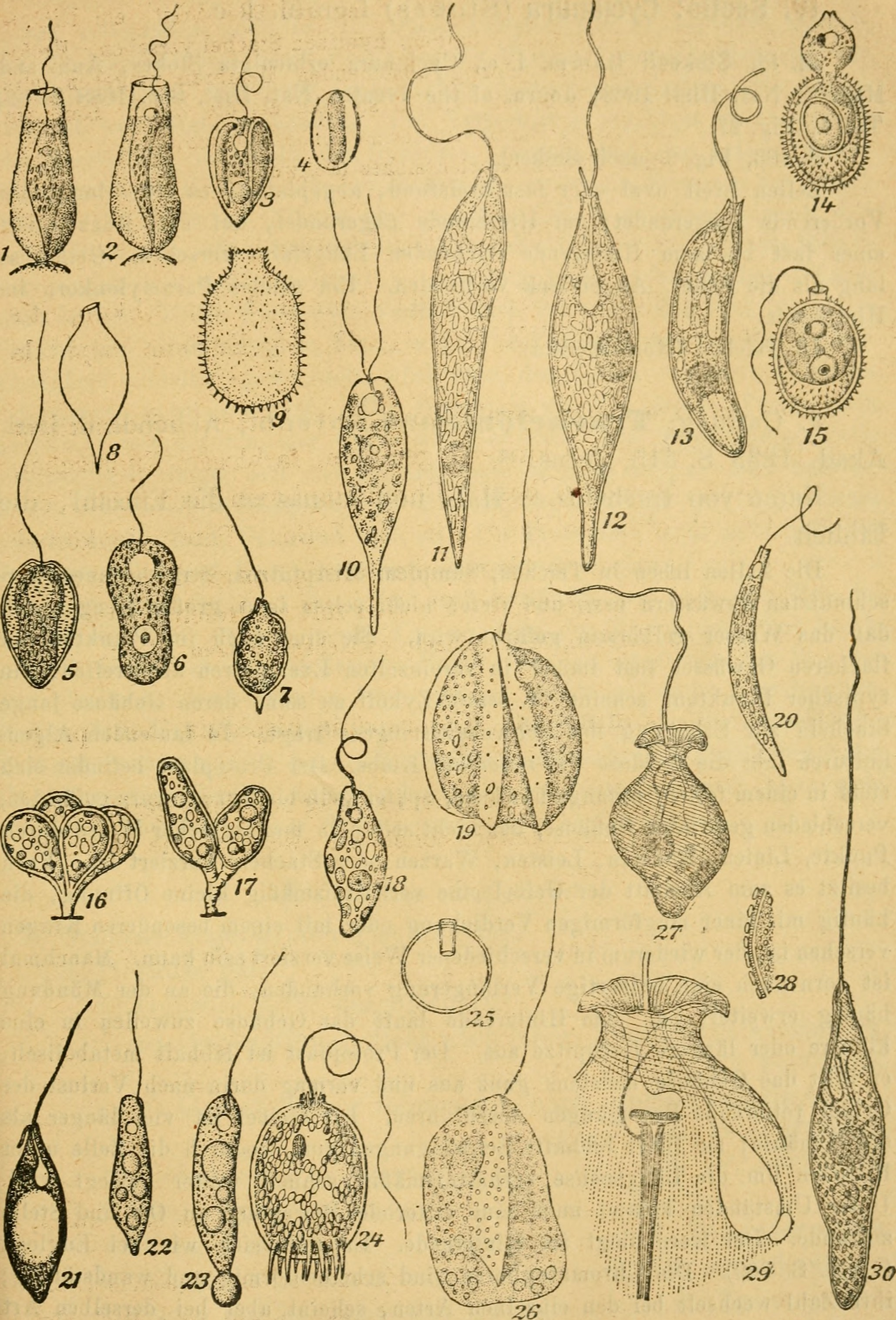 Title: Algen I. (Schizophyceen, Flagellaten, Peridineen) Year: 1910 (1910s) Authors: Lemmermann, E Subjects: Algae -- Germany Publisher: Leipzig, Gebrüder Borntraeger Text Appearing Before Image: — 517 - Text Appearing After Image: Fig. 1—2. Ascoglena vaginieola. 3—4. Cryptoglena pigra. 5—6. Trachelomonas reticulata. 7. Tr. affmis. 8. do. var. levis. 9. Tr. piseatoris. 10. Eutreptia viridis. 11. Astasia dangeardii. 12. Distigma proteus. 13. Menoideum pellucidum. 14—15. Trachelomonas hispida. 16—18. Colacium vesieulosum. 19. Petalomonas abscissa a eonvergens. 20. Astasia curvata. 21. Sphenomonas teres. 22—23. Euglenopsis vorax. 24. Trachelomonas armata. 25. Tr. cervicula. 26. Petalomonas Sieinii a lata. 27—29, Trachelomonas cj/ctostomus. 30. Peranema trichophorum.